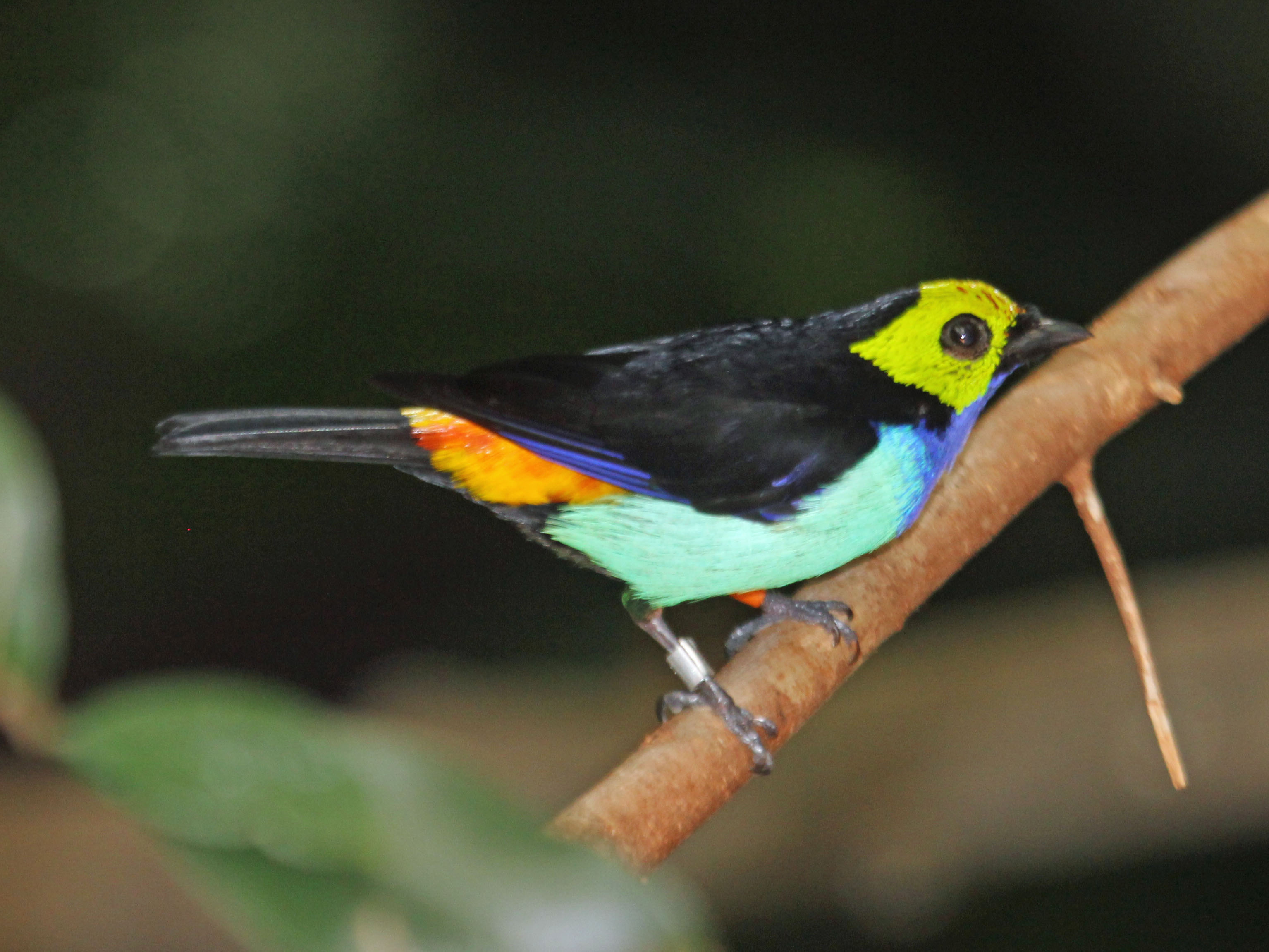 Paradise Tanager (Tangara chilensis) - Woodland Park Zoo, Seattle, Washington